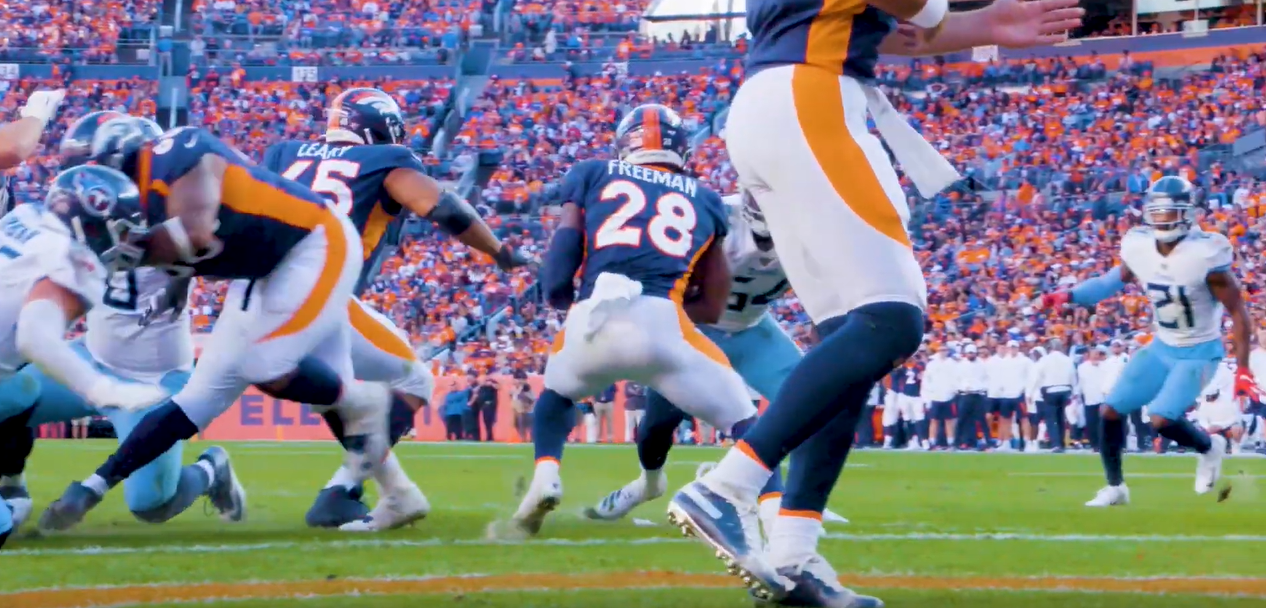 Royce Freeman 2019. Image from video Rashaan Evans' Improved Run Defense in 2019 | Beneath the Surface, ~ 02:57